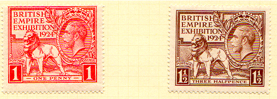 GB British Empire Exhibition Postage Stamps 1924 Scanned from personal collection Jeff Knaggs 13:54, 24 Nov 2004 (UTC)